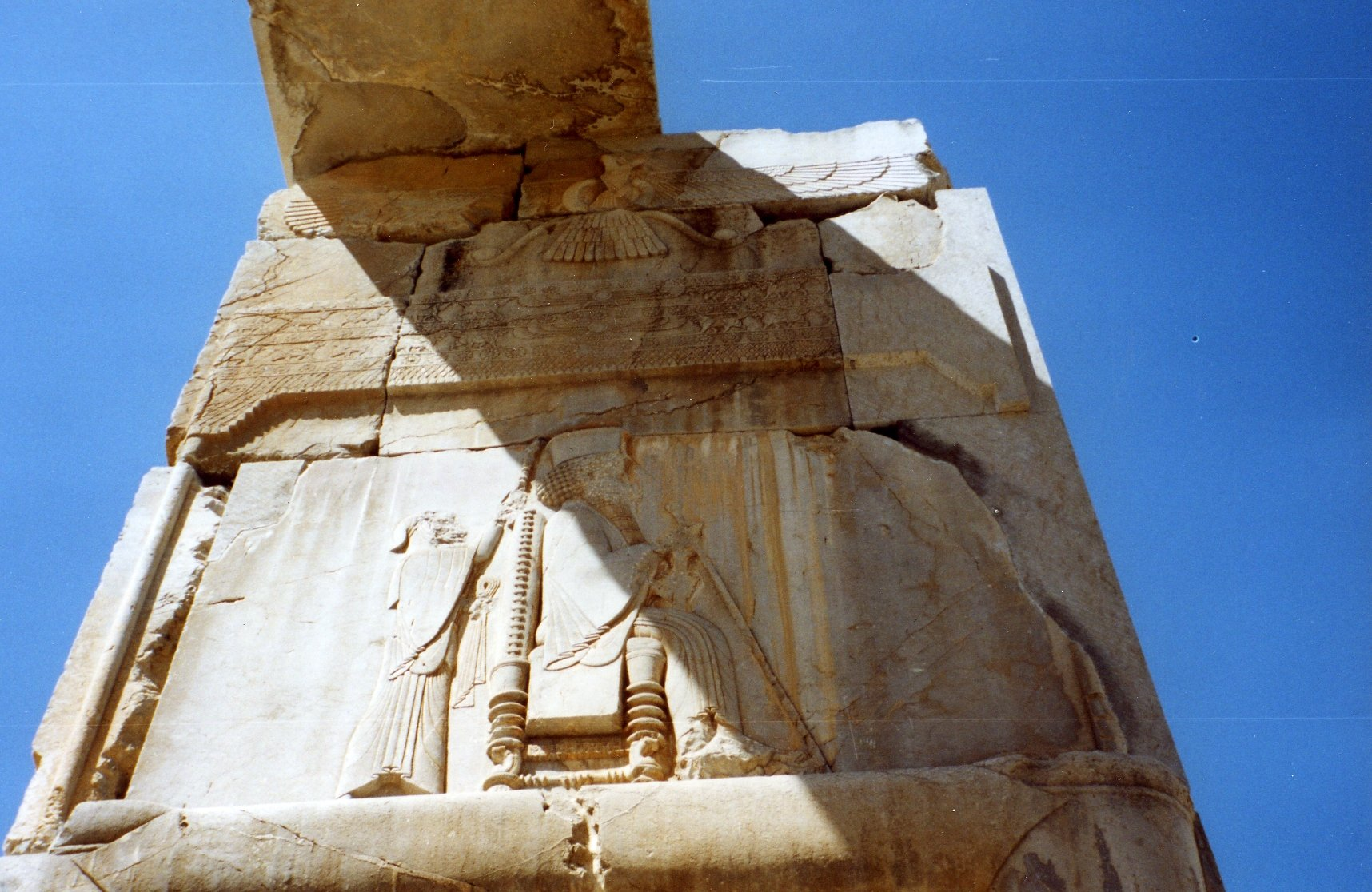 Picture taken by myself in Persepolis, Iran, April 2006